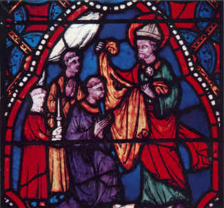 Glass windows at Clermont-Ferrand cathedral, with Saint Austremonius